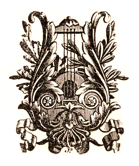 Lyre and laurels. Title page illustration from a poetry book.